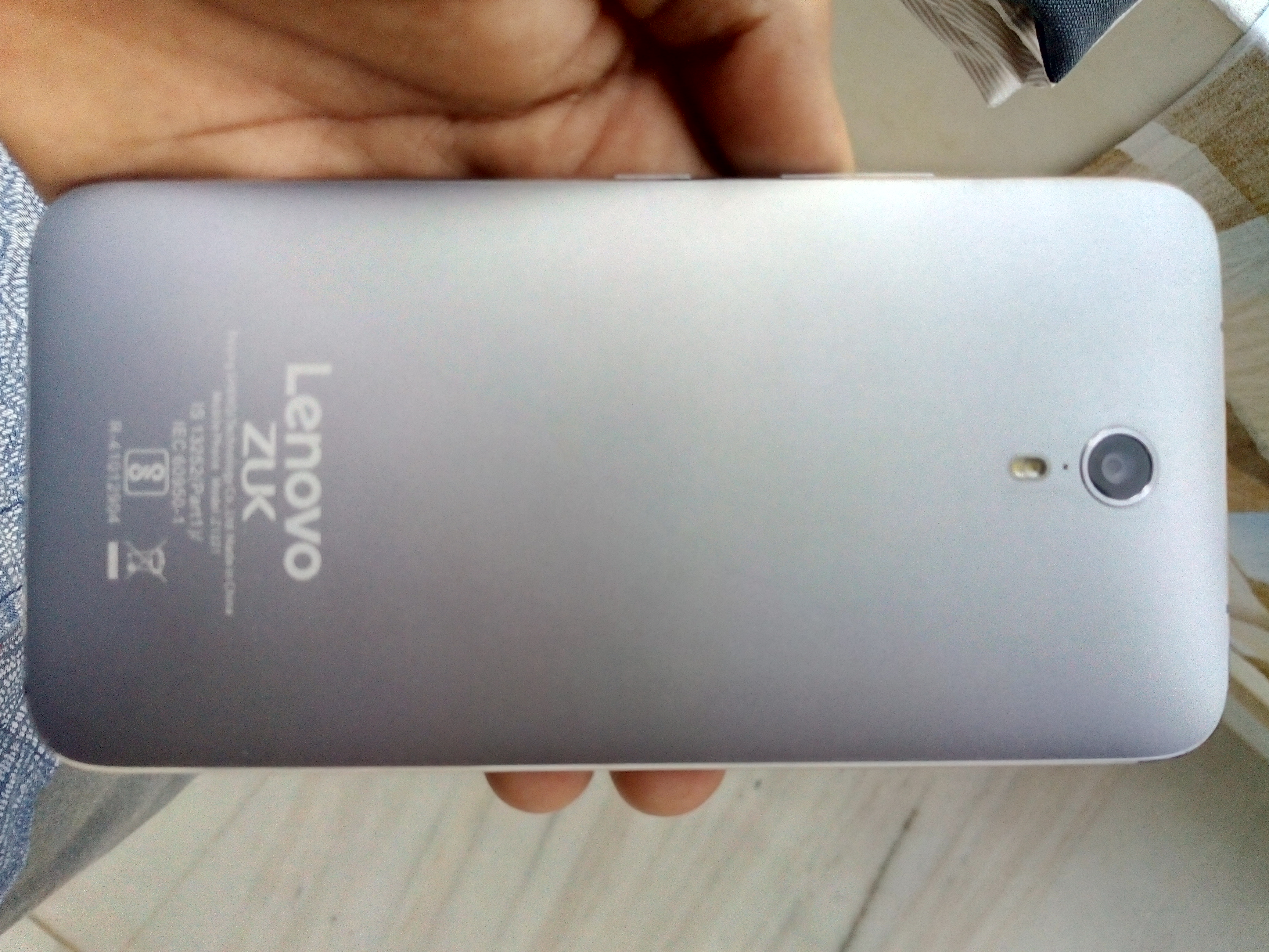 Lenovo zuk z1 handson.